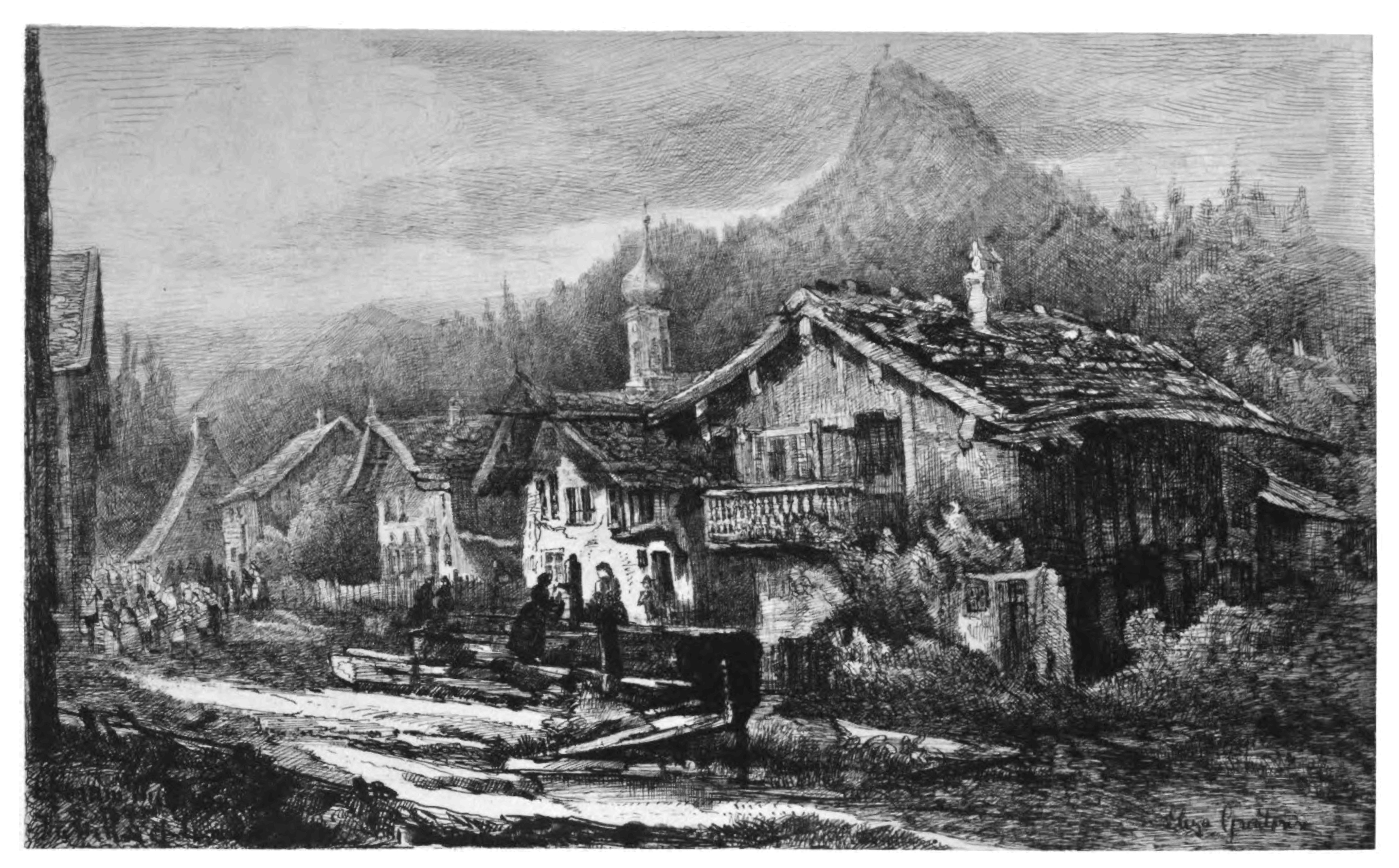 The house of „Lazarus“ and the „Scribe“